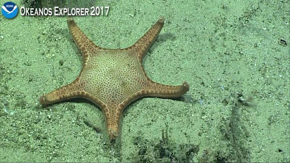 A sea star Circeaster sandrae observed in the abyss by the NOAA Okeanos Explorer mission "2017 American Samoa Expedition: Suesuega o le Moana o Amerika Samoa".